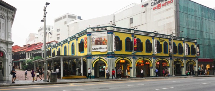 Peranakan Place Complex exterior